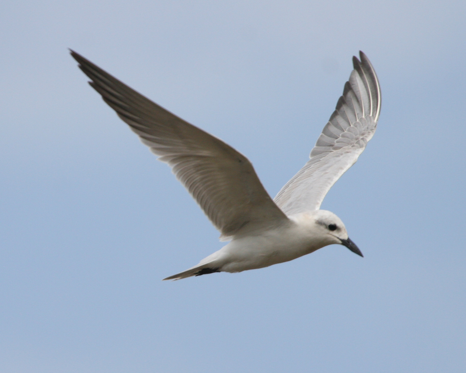 Gull-billed Tern Gelochelidon nilotica in winter plumage, Uran, Mumbai, India